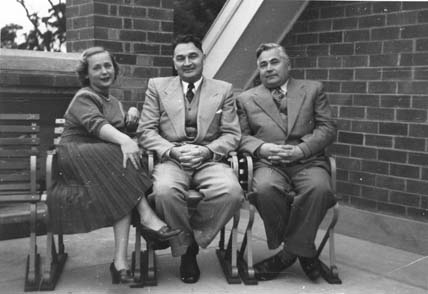 Vladimir Petrov and Evdokia Petrov with ASIO officer Ron Richards (centre) after the couple were granted political asylum in Australia.